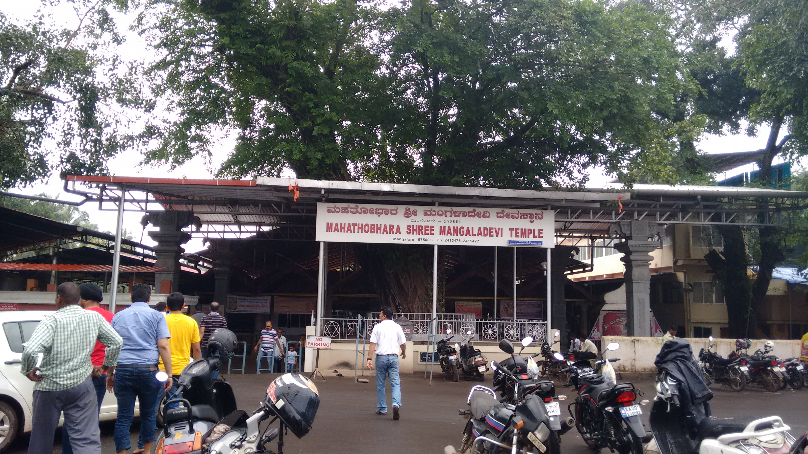 Mangala Devi Temple